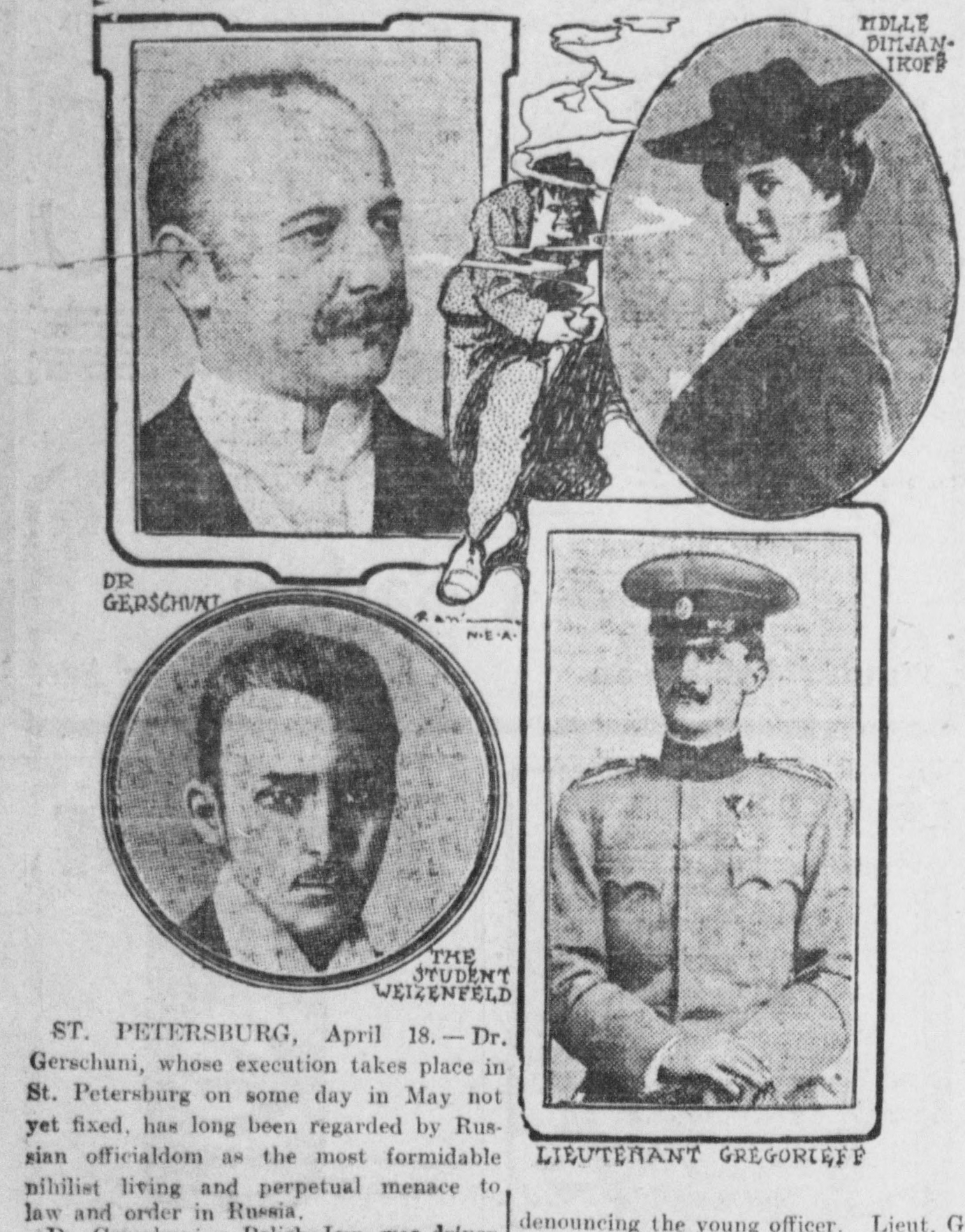 Dr. Grigory Gershuni was an anarchist and revolutionary working towards the fall of the Russian Empire. In 1903, he and several accomplices were arrested, tried, and convicted; in 1904, they were sentenced. Dr. Gershuni was sentenced to death; this was later commuted to life imprisonment, and in 1906 he escaped. Lieutenant Gregorieff (age 27) was sentenced to death; he requested to be sent to fight and die in the Russo-Japanese War. The student Weizenfeld (age 22) was sentenced to two years in prison. The workman Mentschikoff (age 26, not pictured) was sentenced to death, although it was expected that this would be commuted to life imprisonment. Mademoiselle Rimjanikoff (age 24) was sentenced to one year in prison.